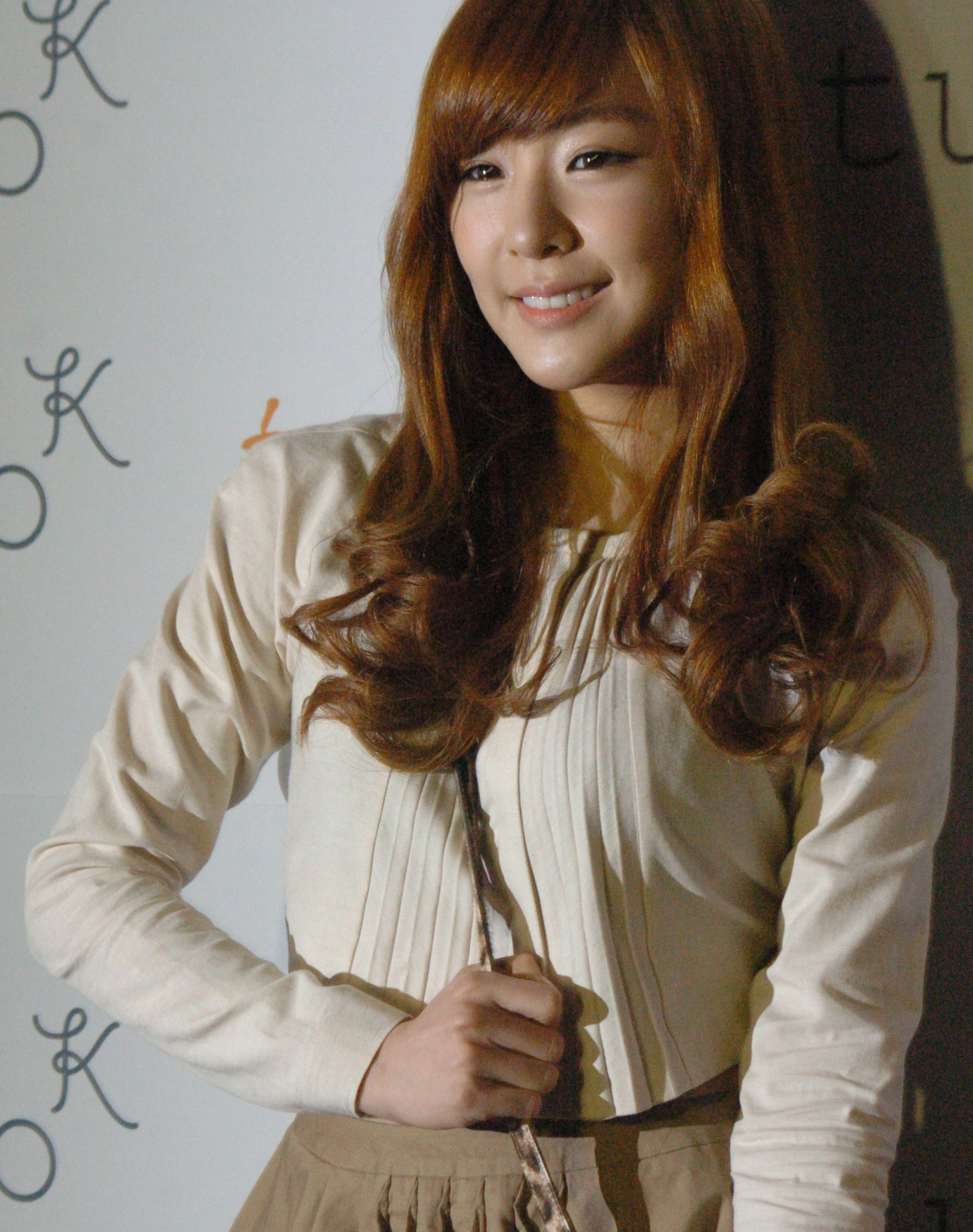 Tiffany in 2012 F/W Seoul Fassion Week.